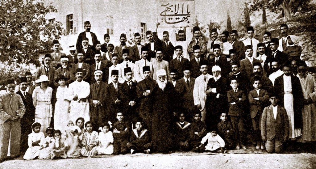 In Haifa, Palestine: Abdu'l-Baha on Mount Carmel with pilgrims